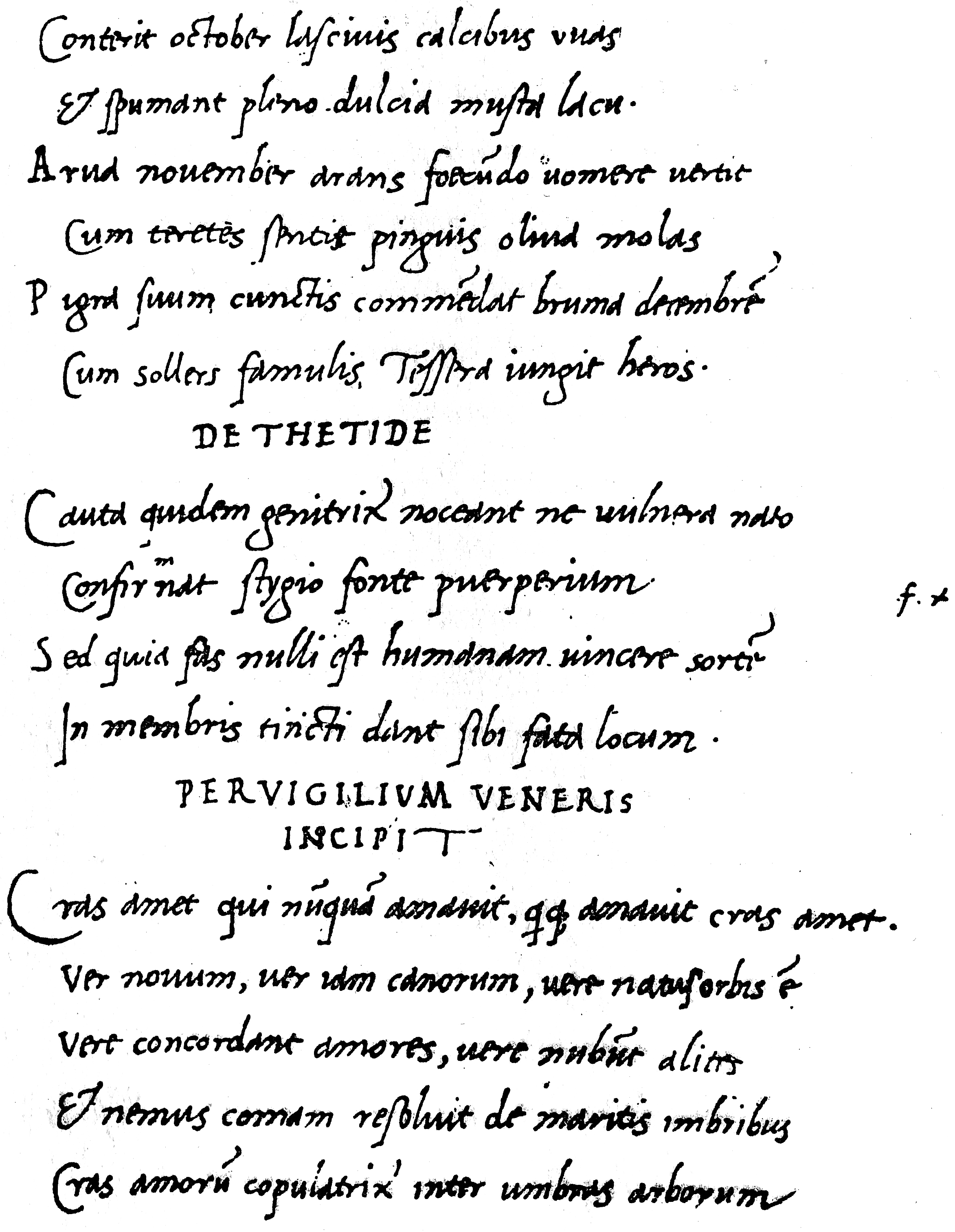 The 1st text page of the Pervigilium Veneris in codex V, the Codex Sannazarii or Codex Vindobonensis 9401, a Humanistic manuscript written by the poet Jacopo Sannazaro.